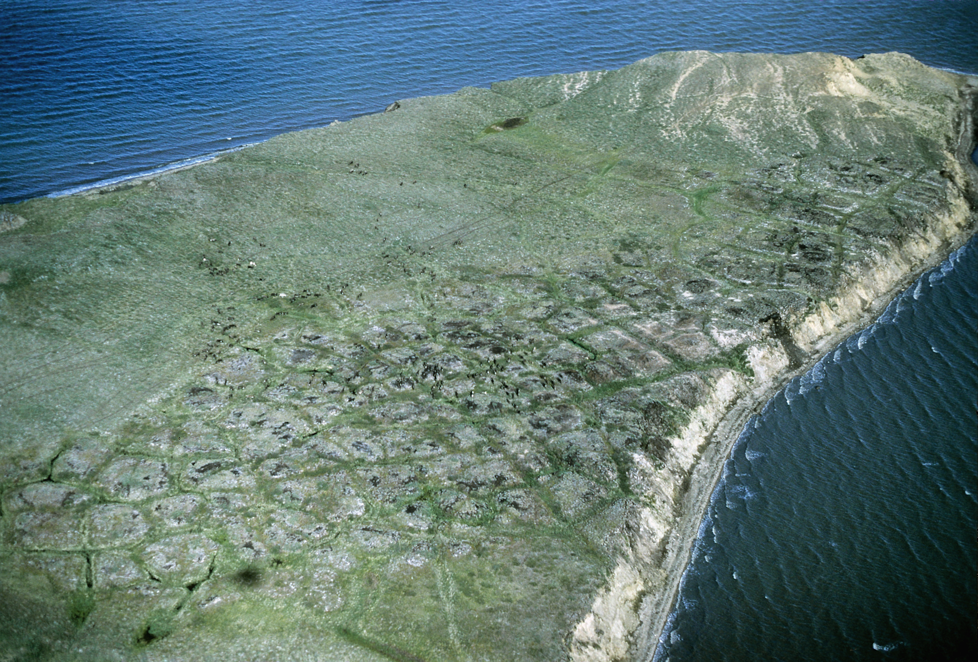 Peninsula at the coast of the Arctic Ocean shows well developed ice-wedge polygons. A Caribou herd is grazing in it. Mackenzie delta area. Photo: Lorenz King, JLU_Giessen.de, August 8,1987